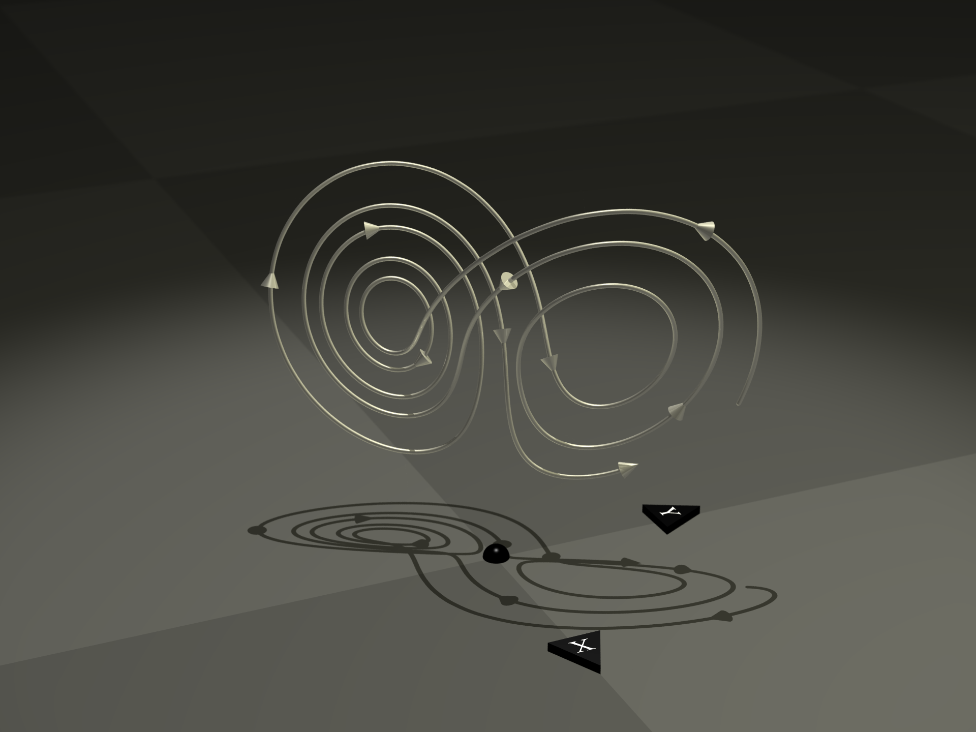 Finite segment of a trajectory of Lorenz's equations, computed by numerical integration and rendered as a metal wire. Parameter values are classical. Conical beads indicate the direction of travel. The black hemisphere marks the origin, and directions of the x and y axes are as indicated. The base of each axis triangle is 20 units from the origin. The z axis points upward; the highest point on the wire is approximately 45 units above the x-y plane. The shadow is cast by a spotlight high on the z axis. Adapted from an image I produced for my Ph.D. thesis. Numerical integration is explicit Euler. The scene was rendered using POV-RAY.